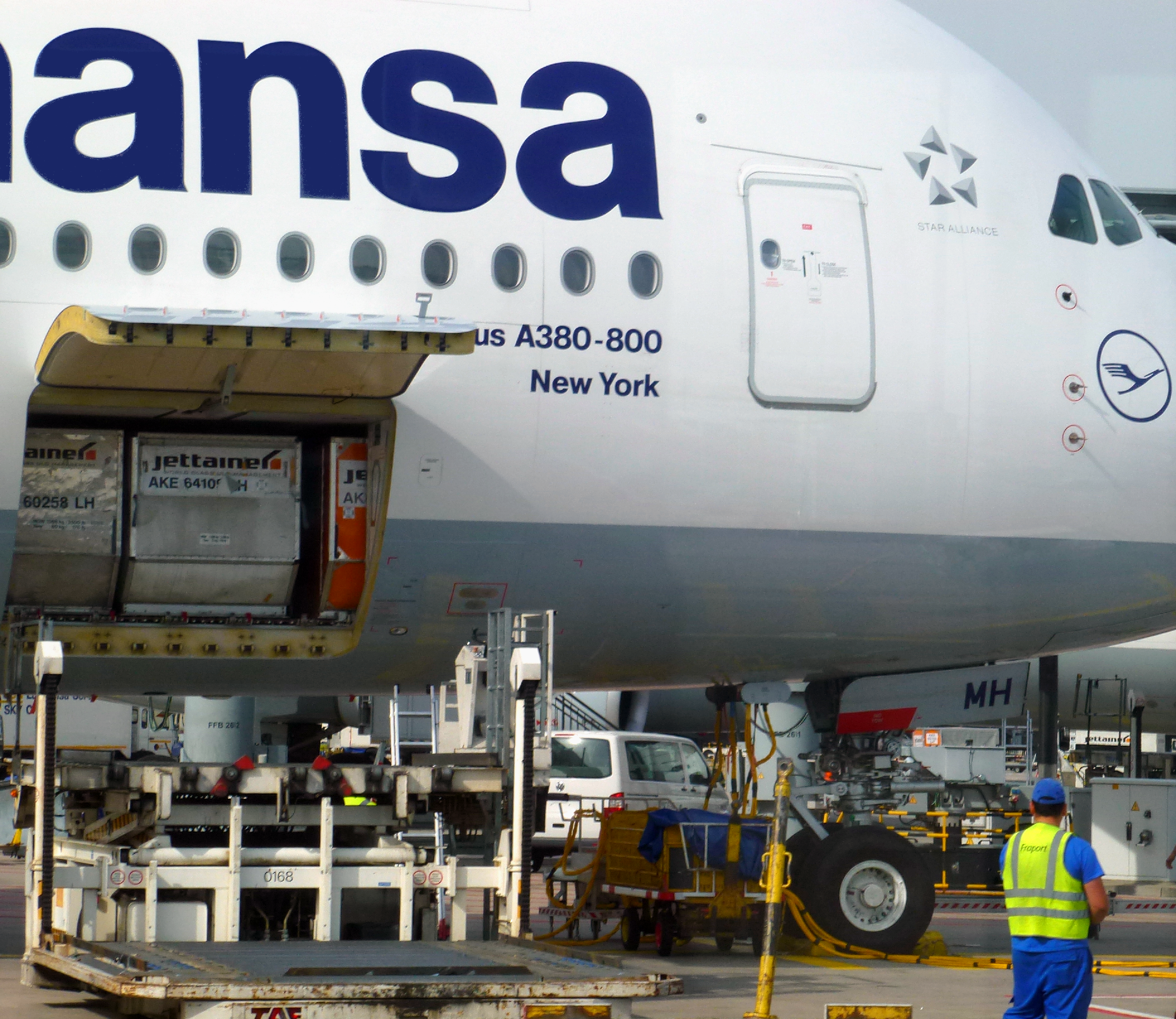 Hatch of the Lufthansa Airbus A380-841 New York - D-AIMH (aircraft) - at Frankfurt Airport (FRA) with a 7.000kg Loader Wide Version CHAMP70W